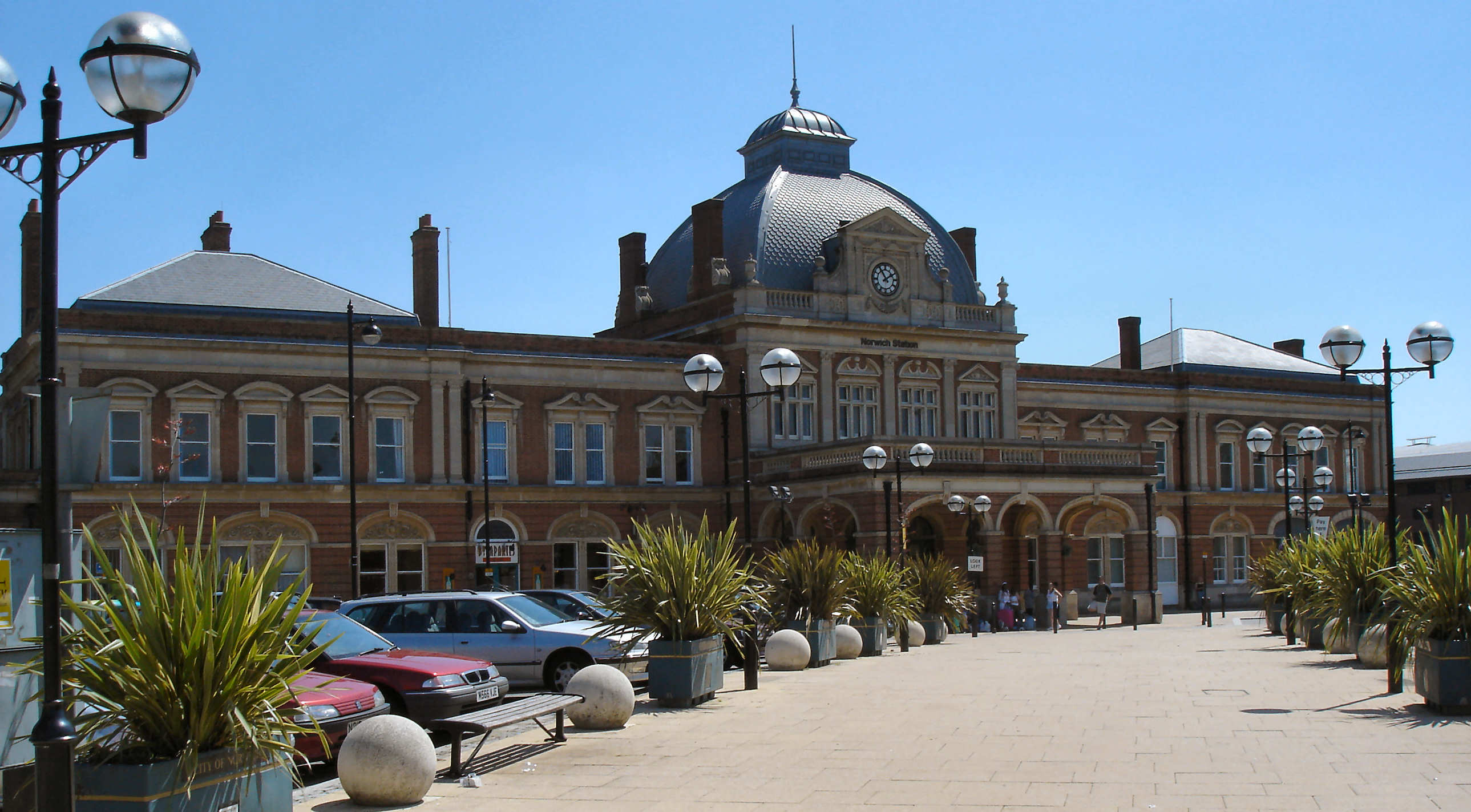 Railway station in Norwich, UK. Created by User:Bluemoose July 2005.